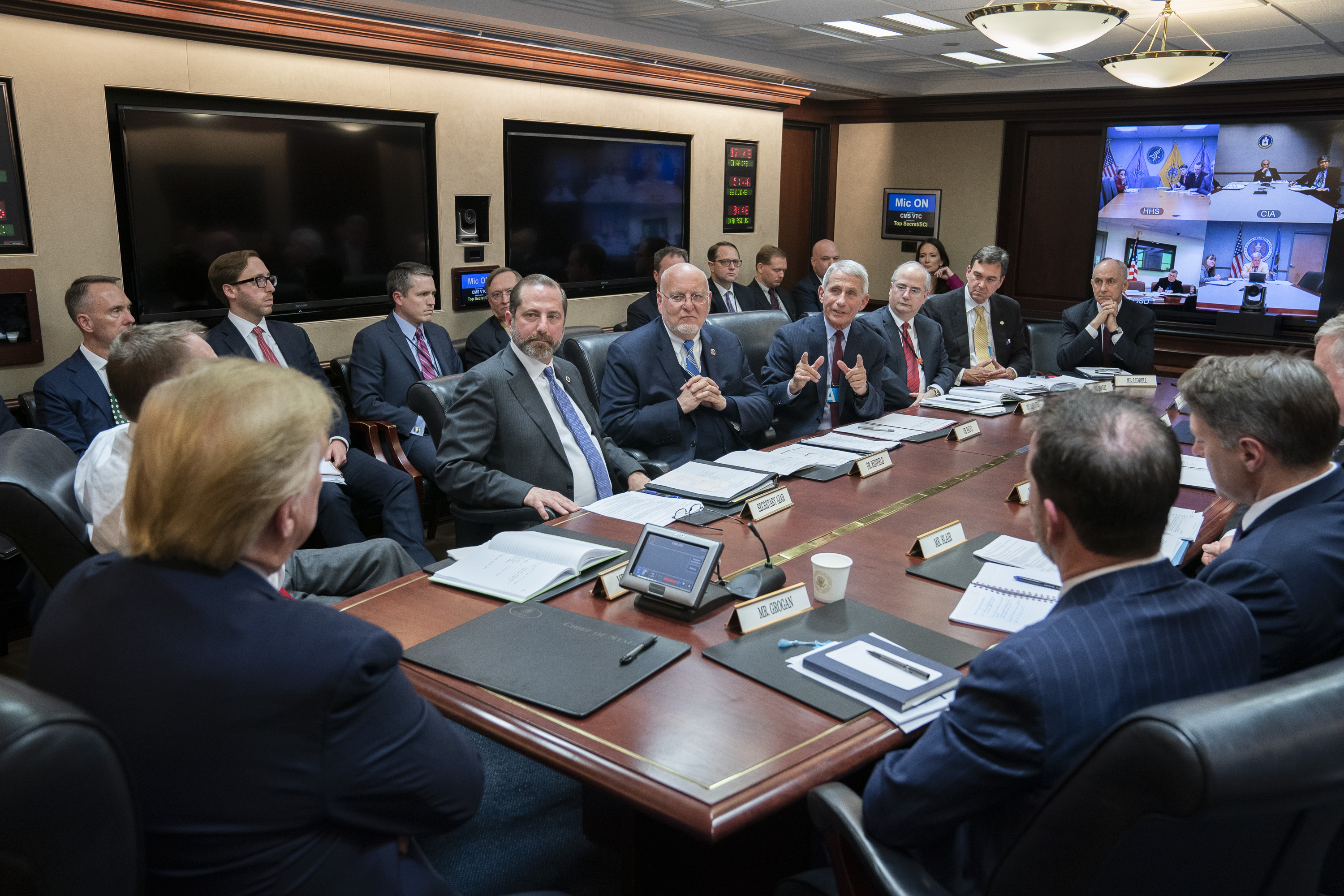 President Donald J. Trump, joined by Secretary of Health and Human Services Alex Azar and White House Chief of Staff Mick Mulvaney, listens as Dr. Anthony S. Fauci, Director of the National Institute of Allergy and Infectious Diseases, addresses a briefing on the latest information about the Coronavirus Wednesday, Jan. 29, 2020, in the Situation Room of the White House. (Official White House Photo by Joyce N. Boghosian)